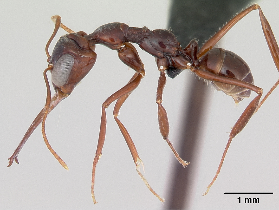 Profile view of ant Myrmoteras iriodum specimen casent0006837.